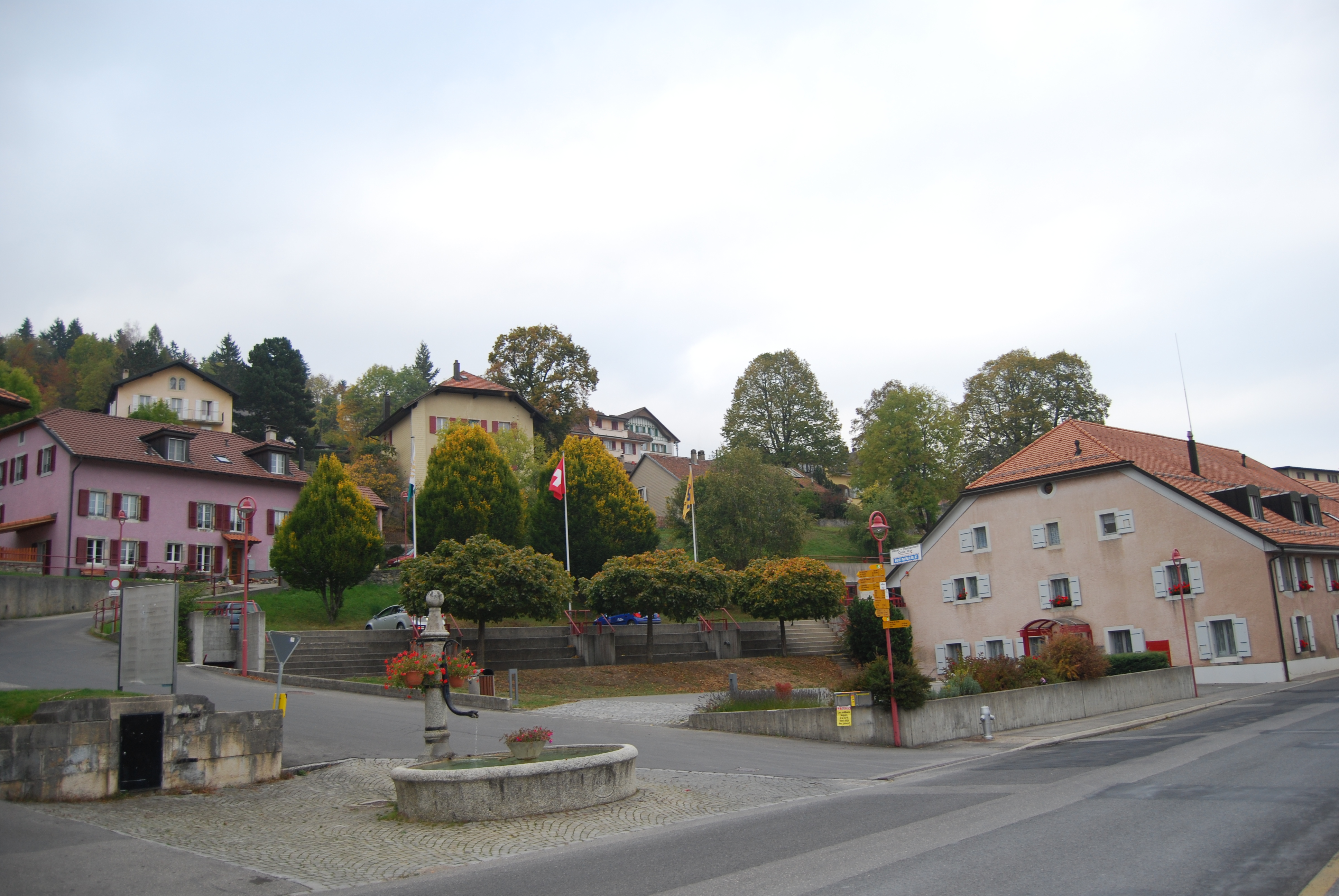 Village fountain at Ballaigues, canton of Vaud, Switzerland